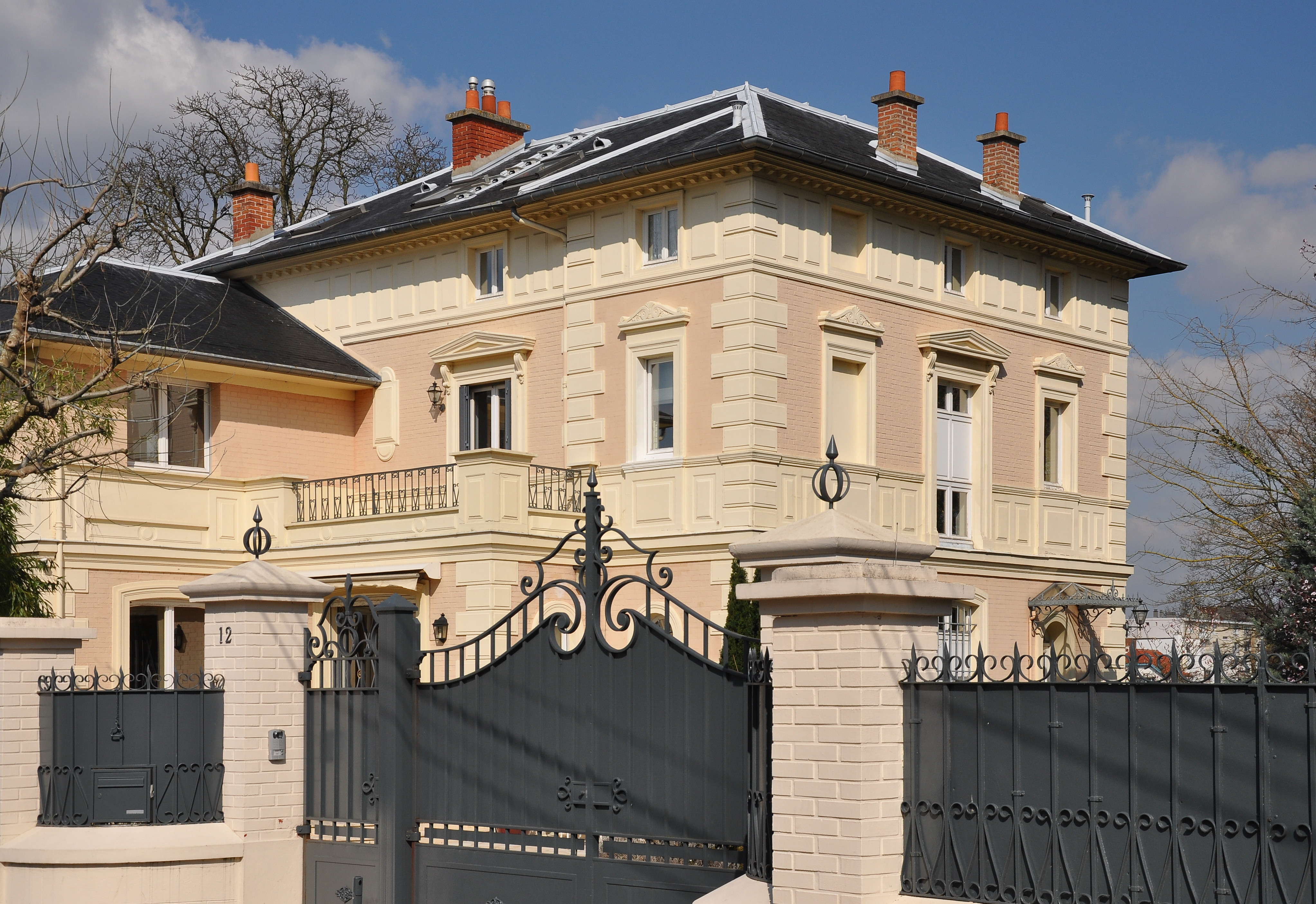 House Olivia located at 12 avenue Rembrandt in Le Vésinet, Yvelines department, France. Built by architect Pierre-Joseph Olive (1817-1899) at the banks of the pond Lac de la Station, the house is listed in the General registry of the cultural heritage of Île-de-France by the French Ministry of Culture.